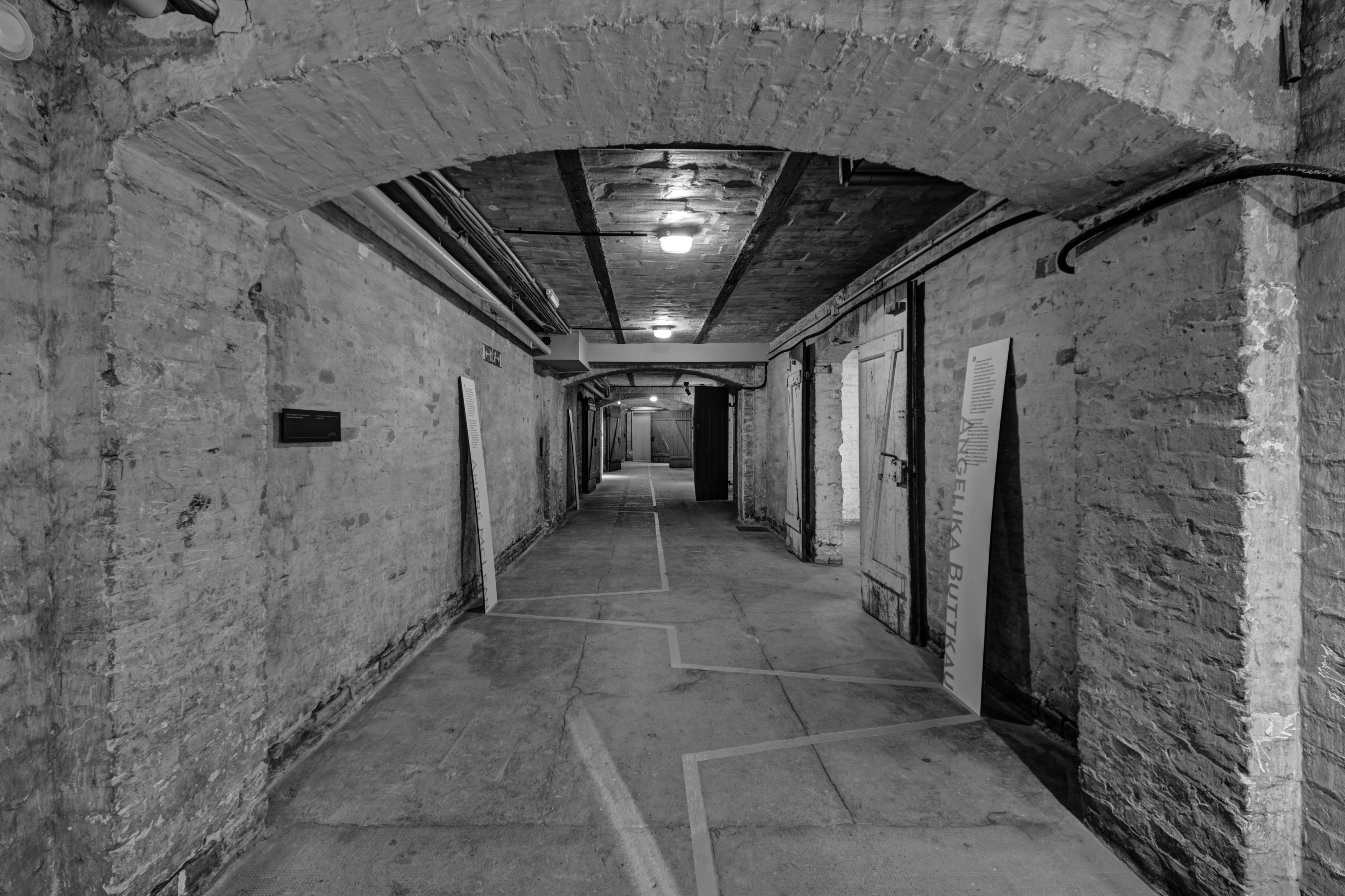 Interior of the former SA Prison Papestraße, Berlin-Tempelhof